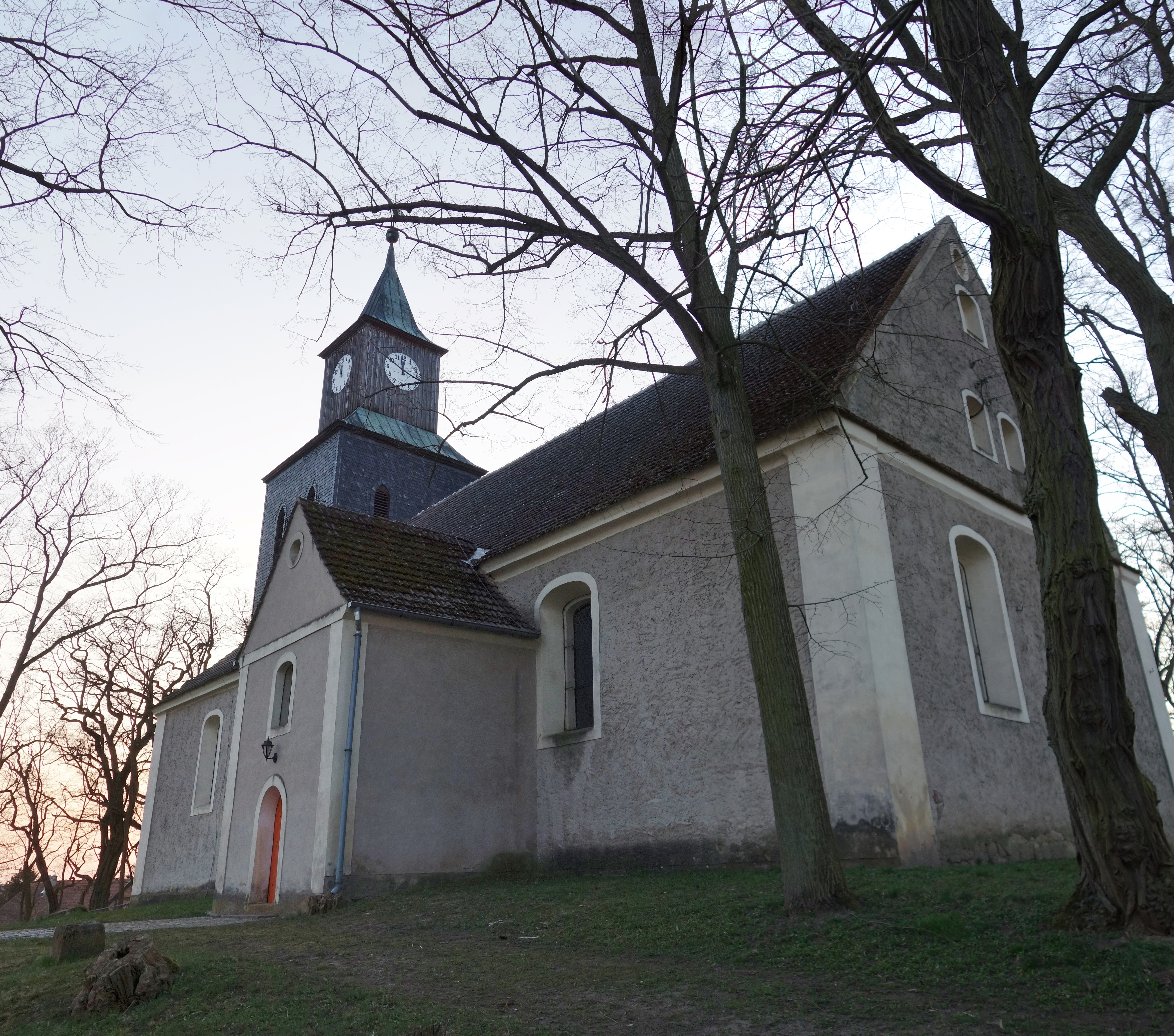 South-eastern view of the church in Greiffenberg , Angermünde municipality , Uckermark district, Brandenburg state, Germany